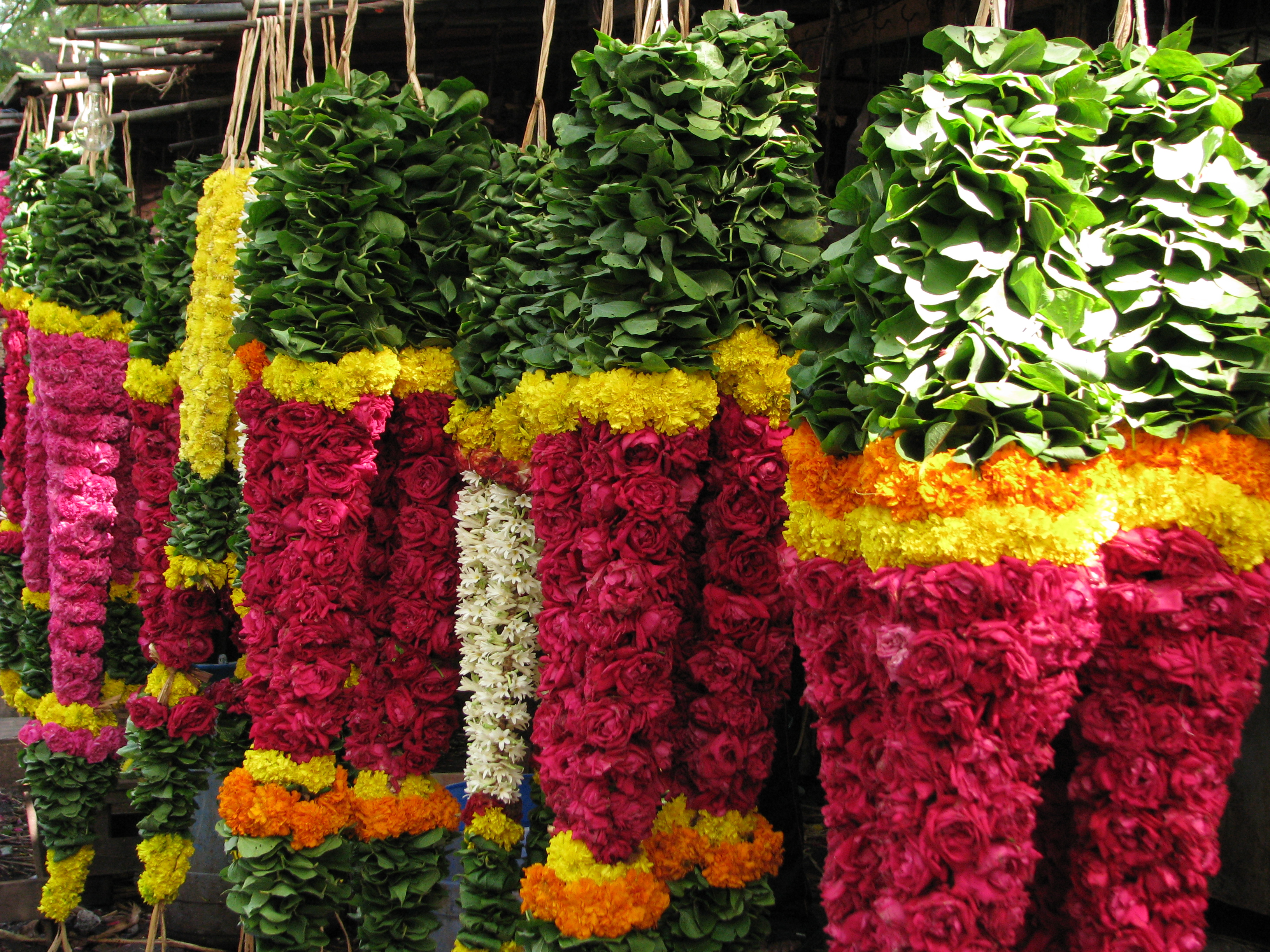 I can never get over the sheer size and weght of these flower garlands on sale commonly. Used for special ocassions and to grace statues, they are stunning. And of course, all freshly hand made.